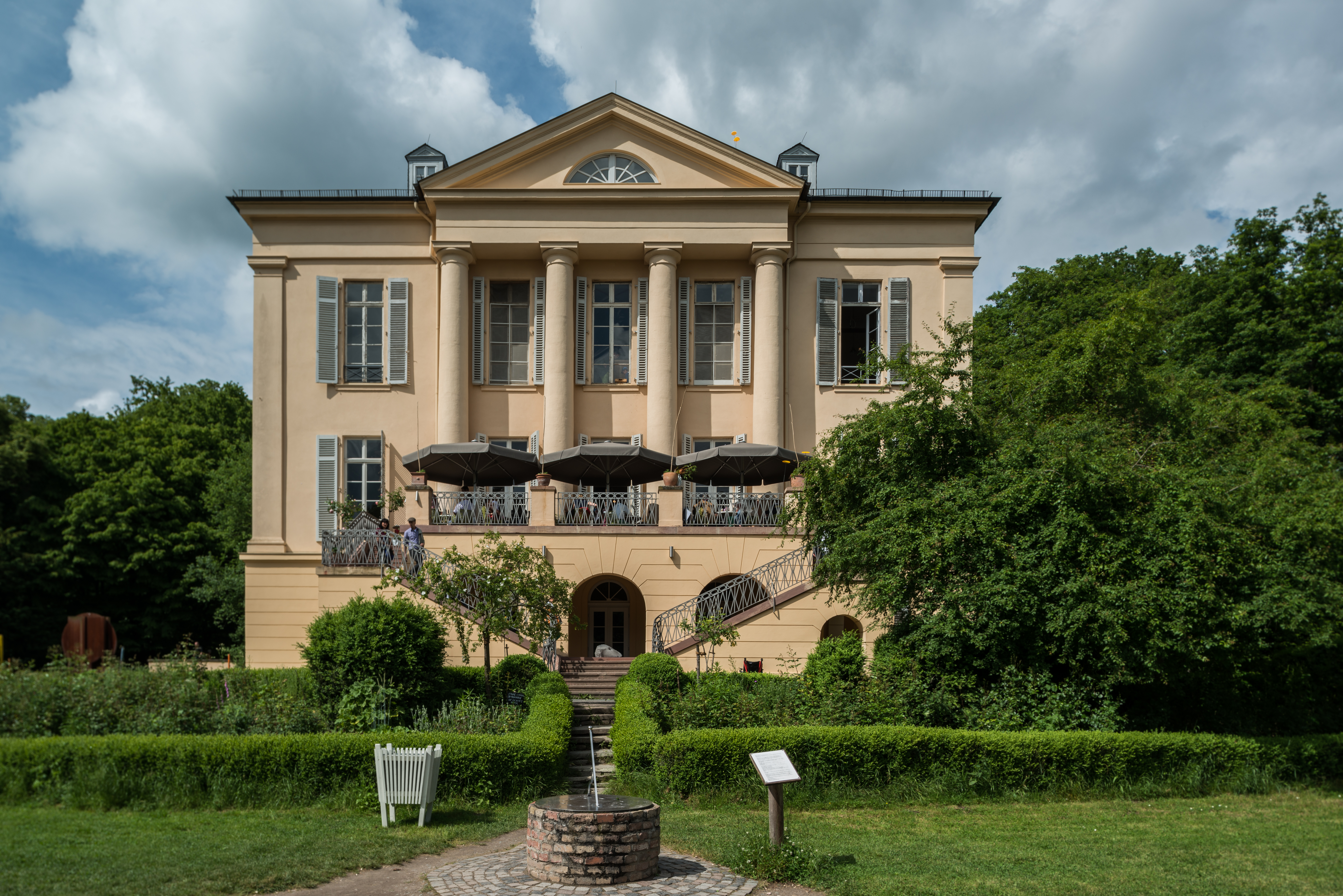 Freudenberg Castle in Wiesbaden, Germany from south